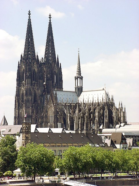 Cologne Cathedral, from Southeast (2007)